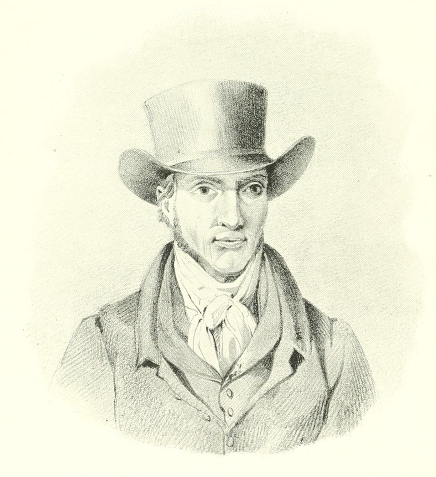 Animal painters of England from the year 1650 : a brief history of their lives and works: illustrated with--specimens of their paintngs / chiefly from woodengravings by F. Babbage ; compiled by Sir Walter Gilbey, bart.